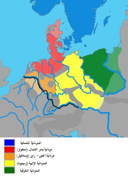 The distribution of the primary Germanic dialect groups in Europe in around AD 1